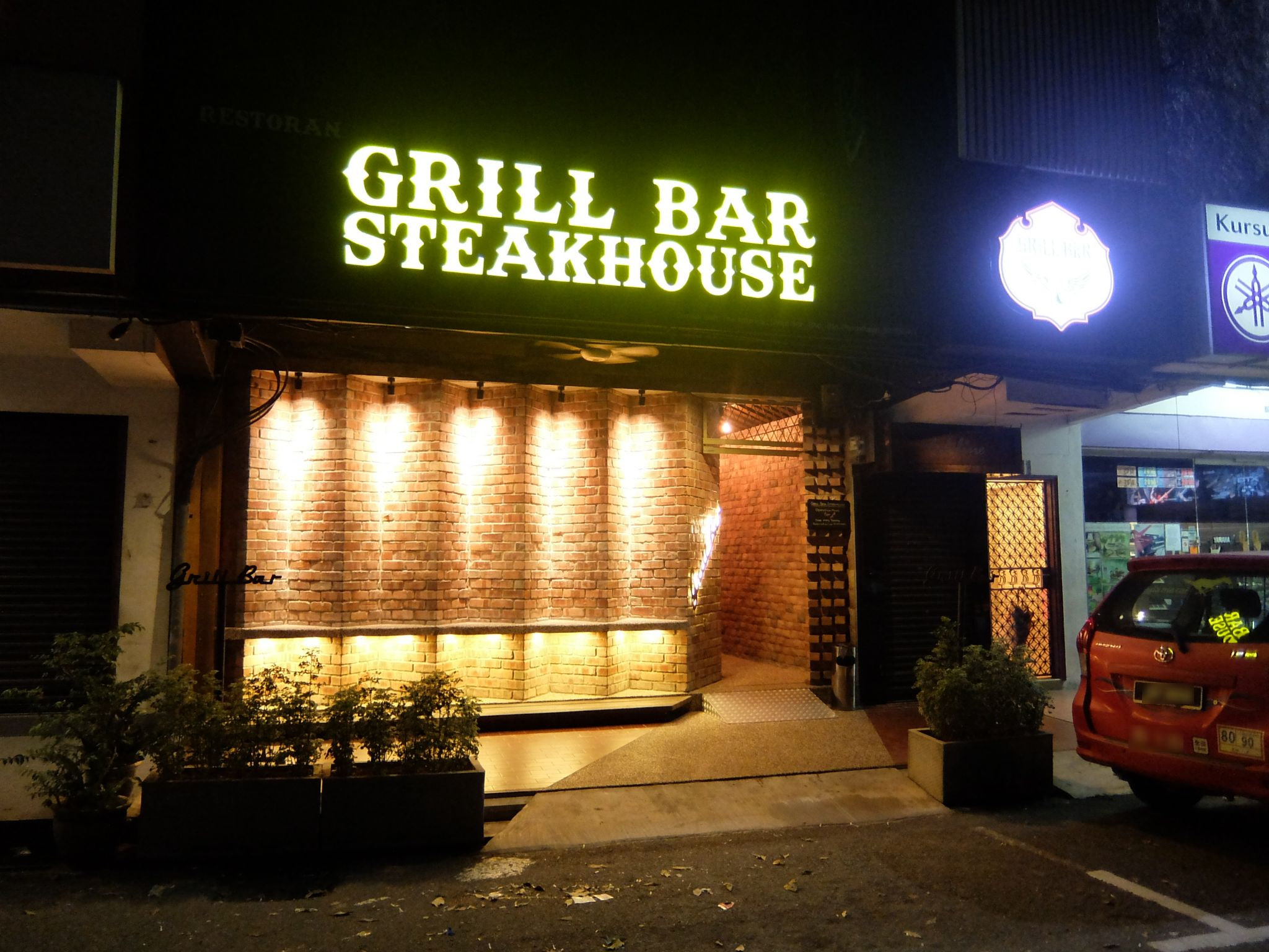 Grill Bar Steakhouse, Taman Pelangi, Johor Bahru, Johor, Malaysia